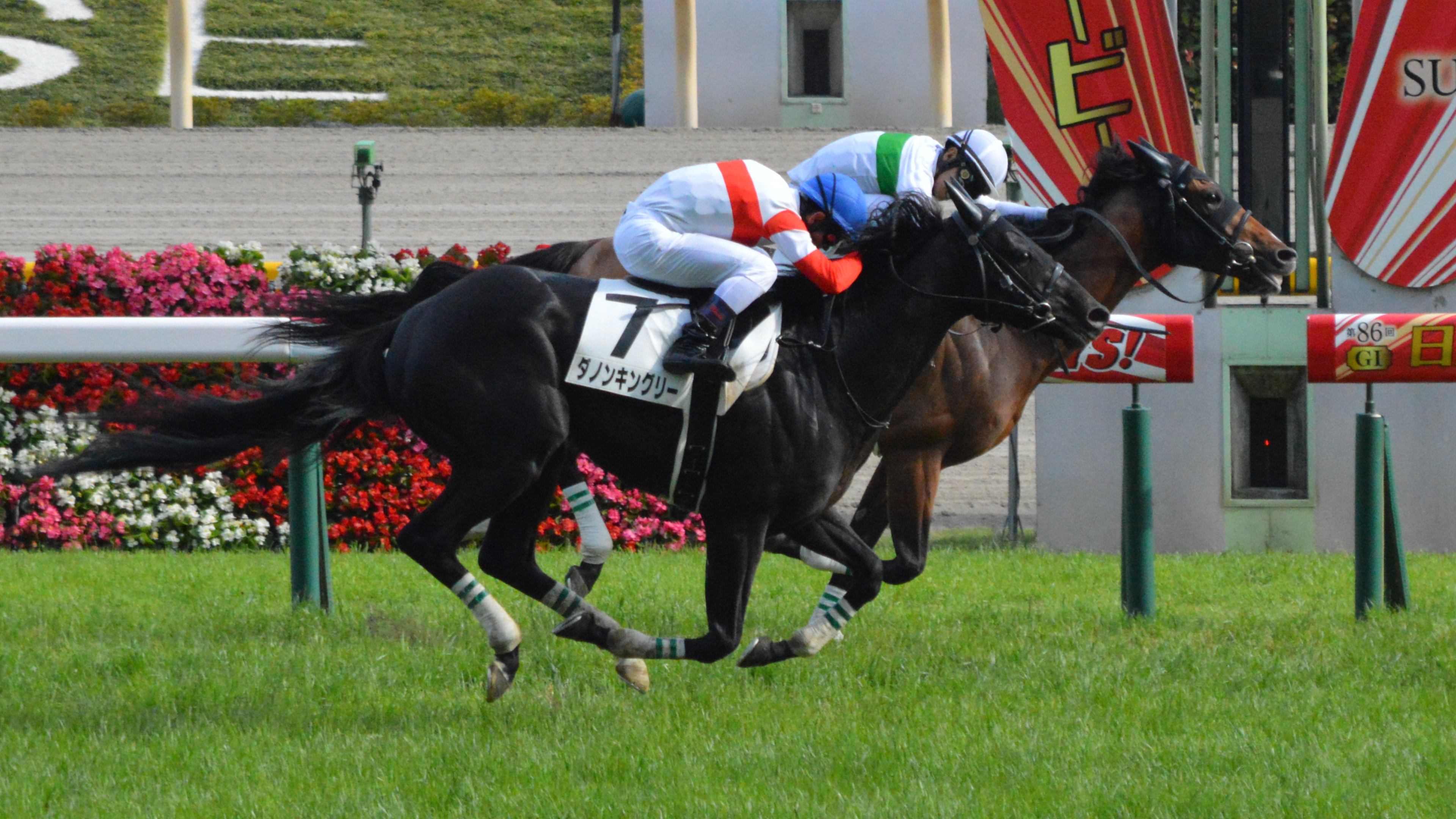 Japanese race horse Roger Barows at Tokyo racecourse. Tokyo (JPN) 26 May 2019Tokyo Yushun (Japanese Derby) (Grade 1) (3yo Colts & Fillies) (Turf) 1m4f Firm RankHorse NameOddsAgeWgtJockeyTrainer1stRoger Barows (JPN)92/1C39-0Suguru HamanakaKatsuhiko Sumii2nd Danon Kingly (JPN)37/10C39-0Keita TosakiKiyoshi HagiwaraOthers are omitted. (18 horses entered in a race.)